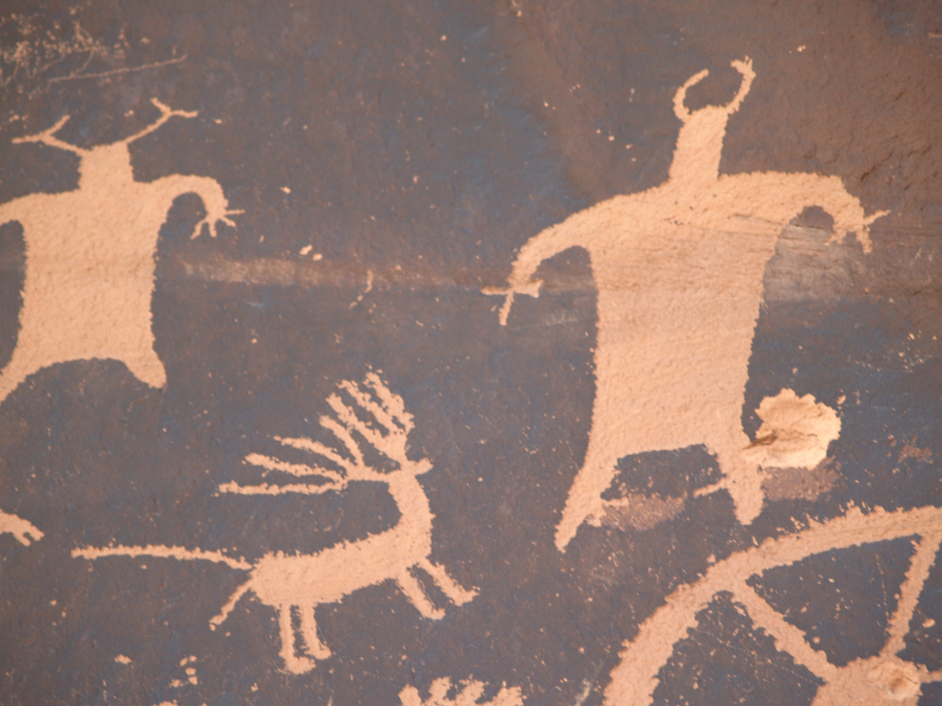 Photo of Newspaper Rock in Utah